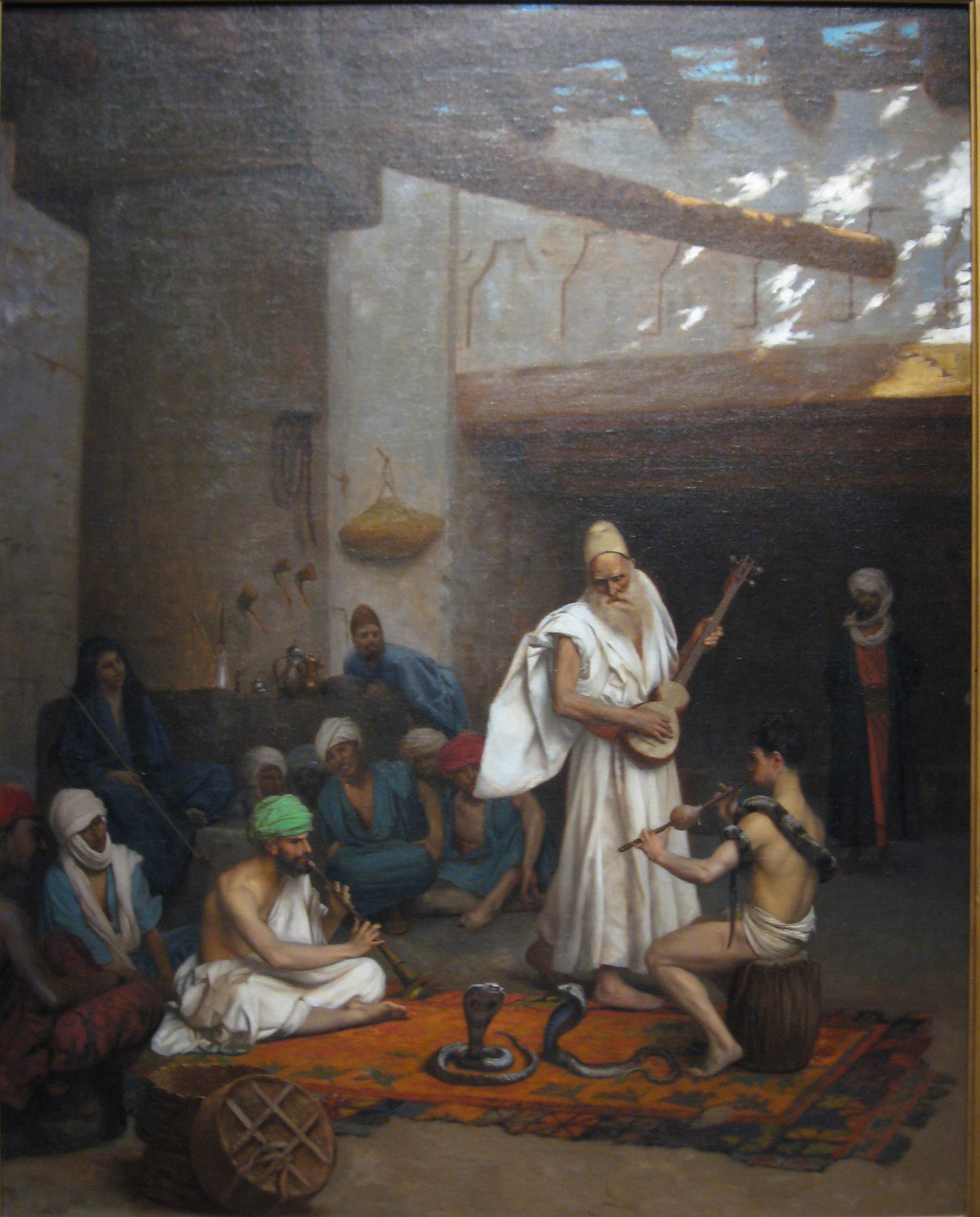 The Snake Charmer